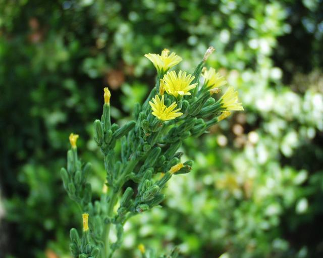 (en) Lactuca virosa, a photography originating of the internet site The accord of the autor, H. Brisse, is here. (fr) Lactuca virosa, une photographie issue du site internet L'accord de l'auteur, H. Brisse, se situe ici.